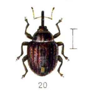 Stenocarus cardui Hrbst. = Stenocarus cardui (Herbst, 1784), adult, dorsal view